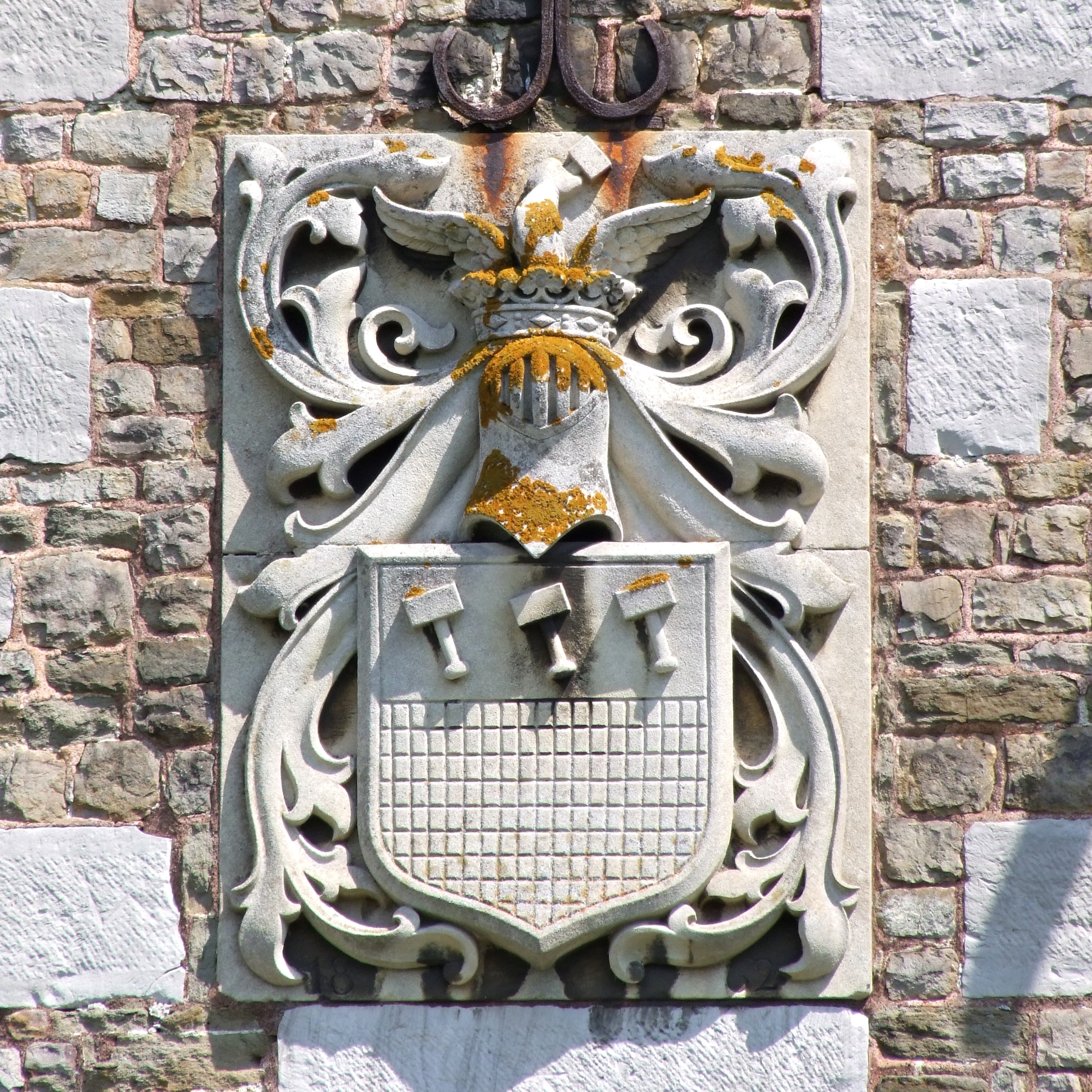 Coat of Arms, on the Western façade of the Castle of Jehay, Seat of the House van den Steen from the end of the 17th century till the end of the 20th century.